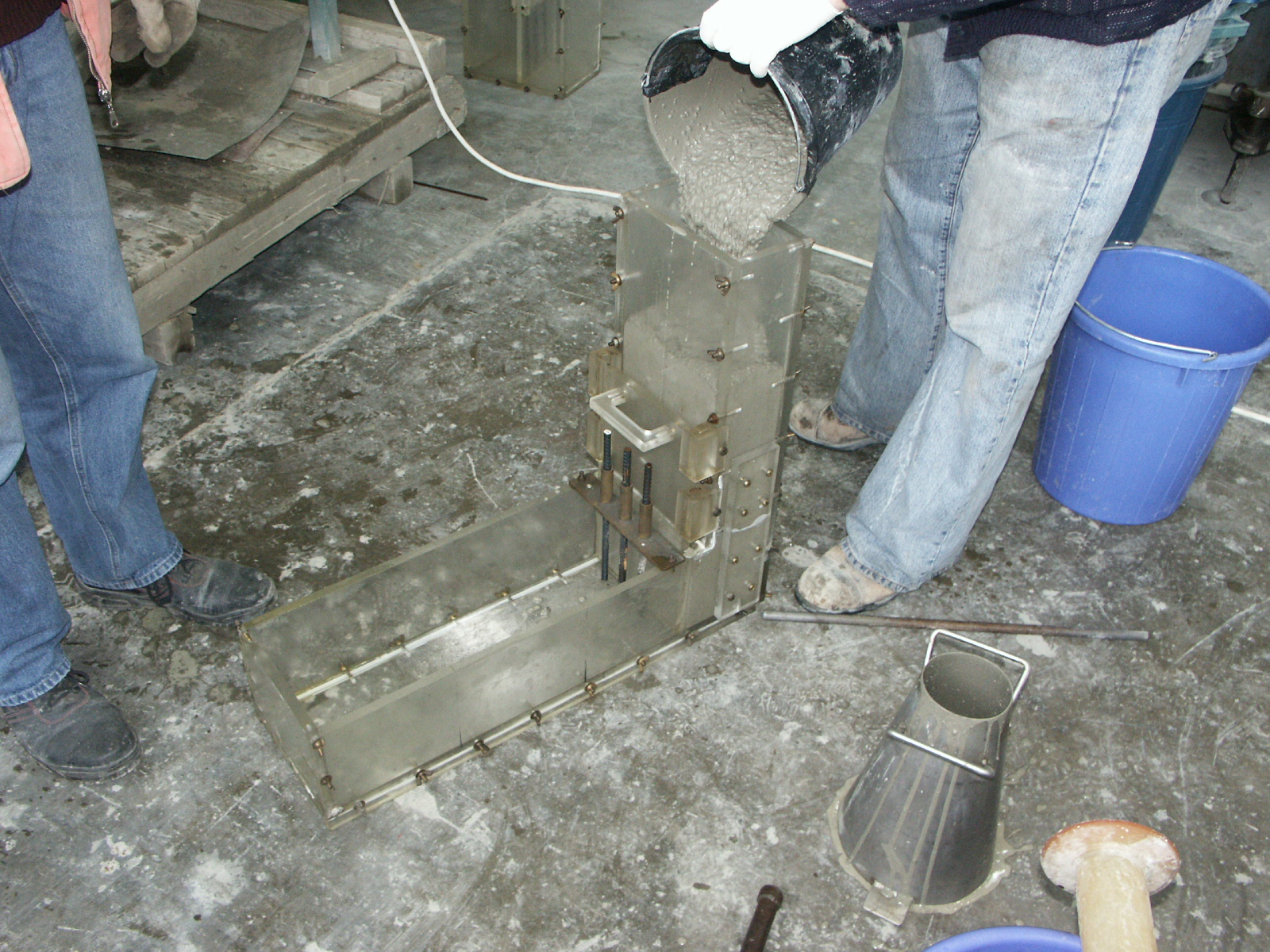 workability test for SCC concrete. the start of an L test